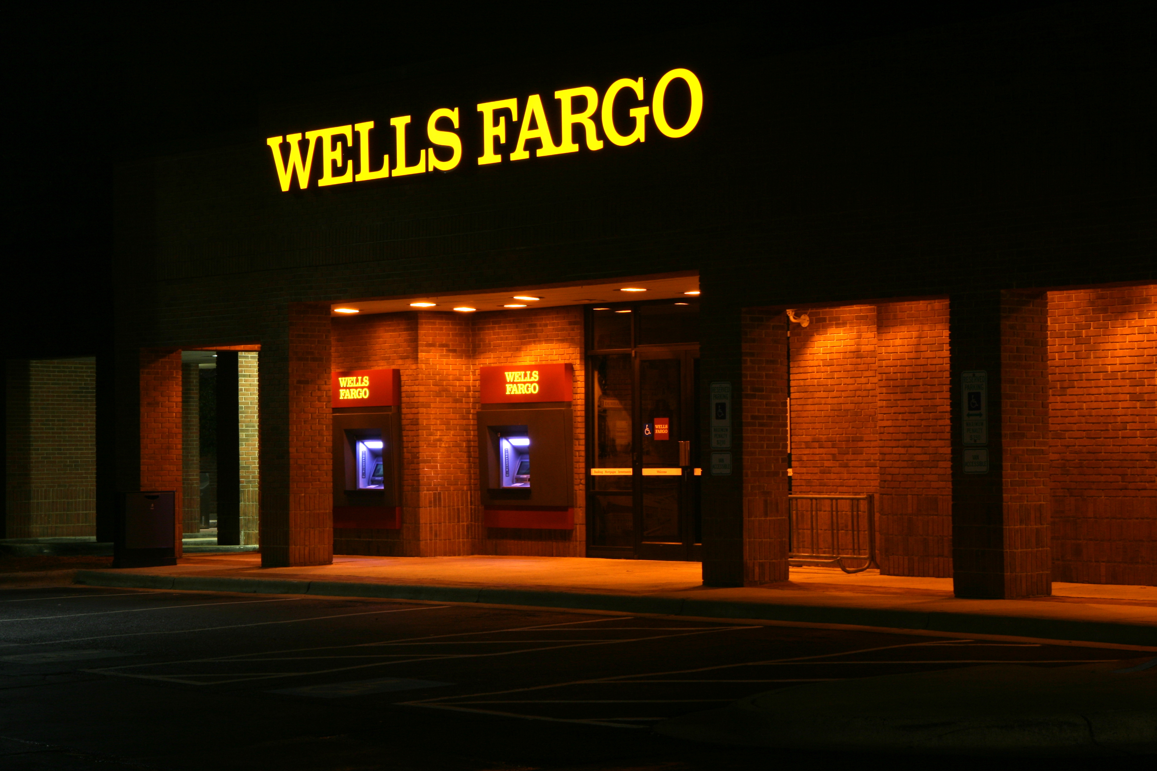 Wells Fargo walk up ATMs lit at night on Ninth Street in Durham, North Carolina.